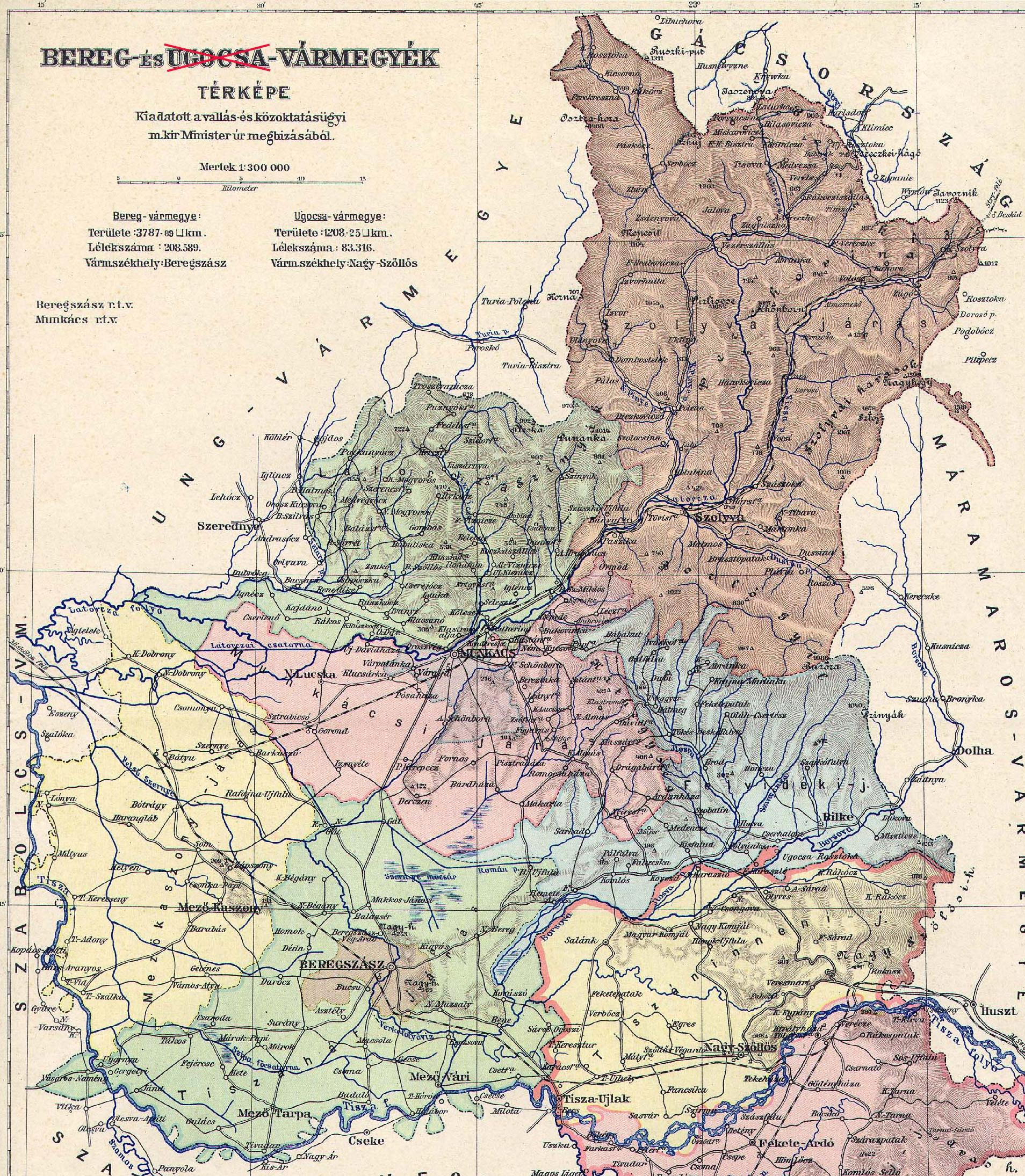 Administrative map of the county of Bereg in the Kingdom of Hungary